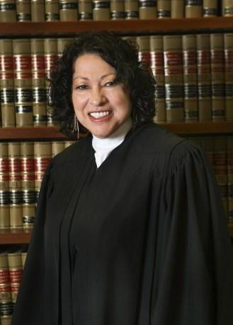 Judge Sonia Sotomayor in 2009. Part of a slide show, "Sotomayor Bio: Picutures from Throughout Judge Sotomayor's Life" According to the May 2009 White House copyright policy, "Except where otherwise noted, third-party content on this site is licensed under a Creative Commons Attribution 3.0 License." No alternative licensing information is given for these photos, so they are assumed to be available under the Creative Commons Attribution 3.0 License.